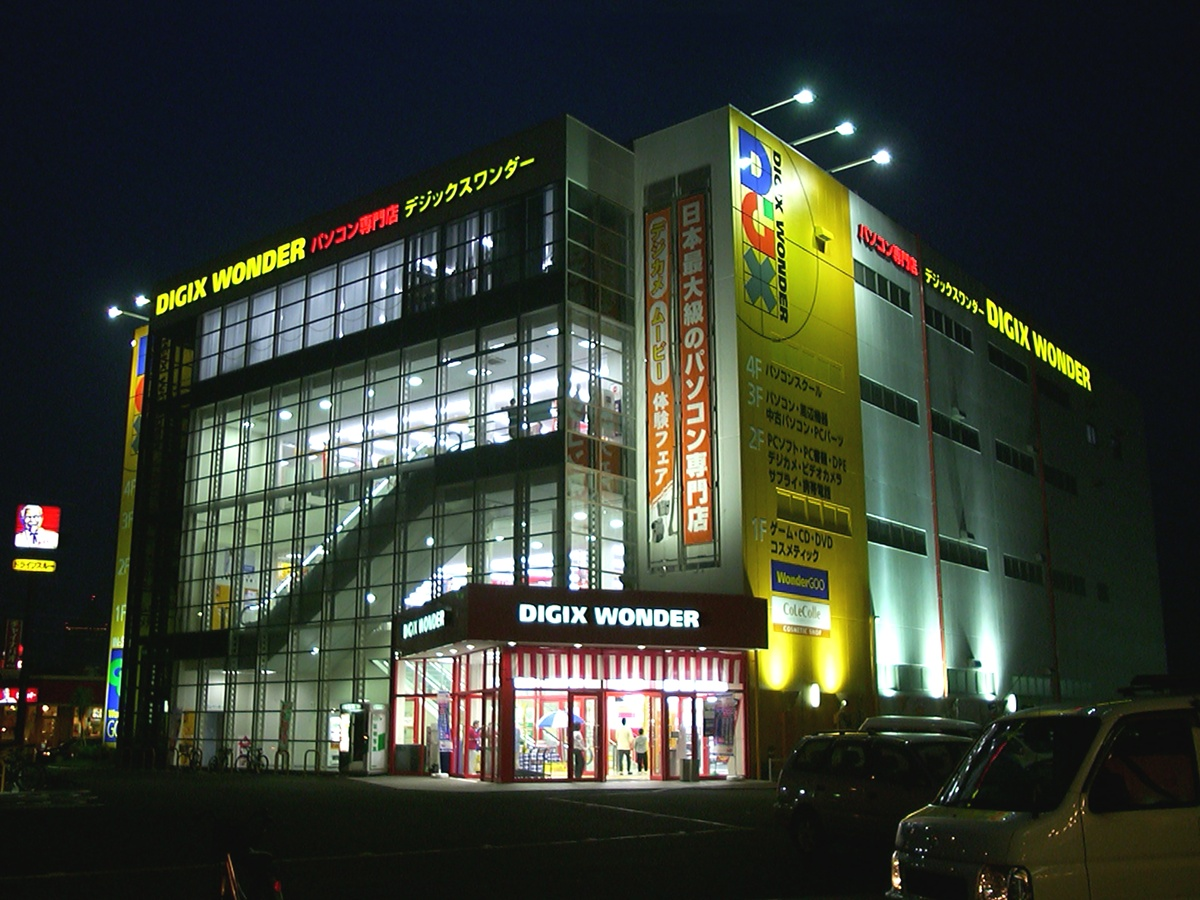 Exterior of Tsukuba DIGIX WONDER, is electronics store in Tsukuba City, Ibaraki Prefecture, this photo shoot on October 19, 2002.